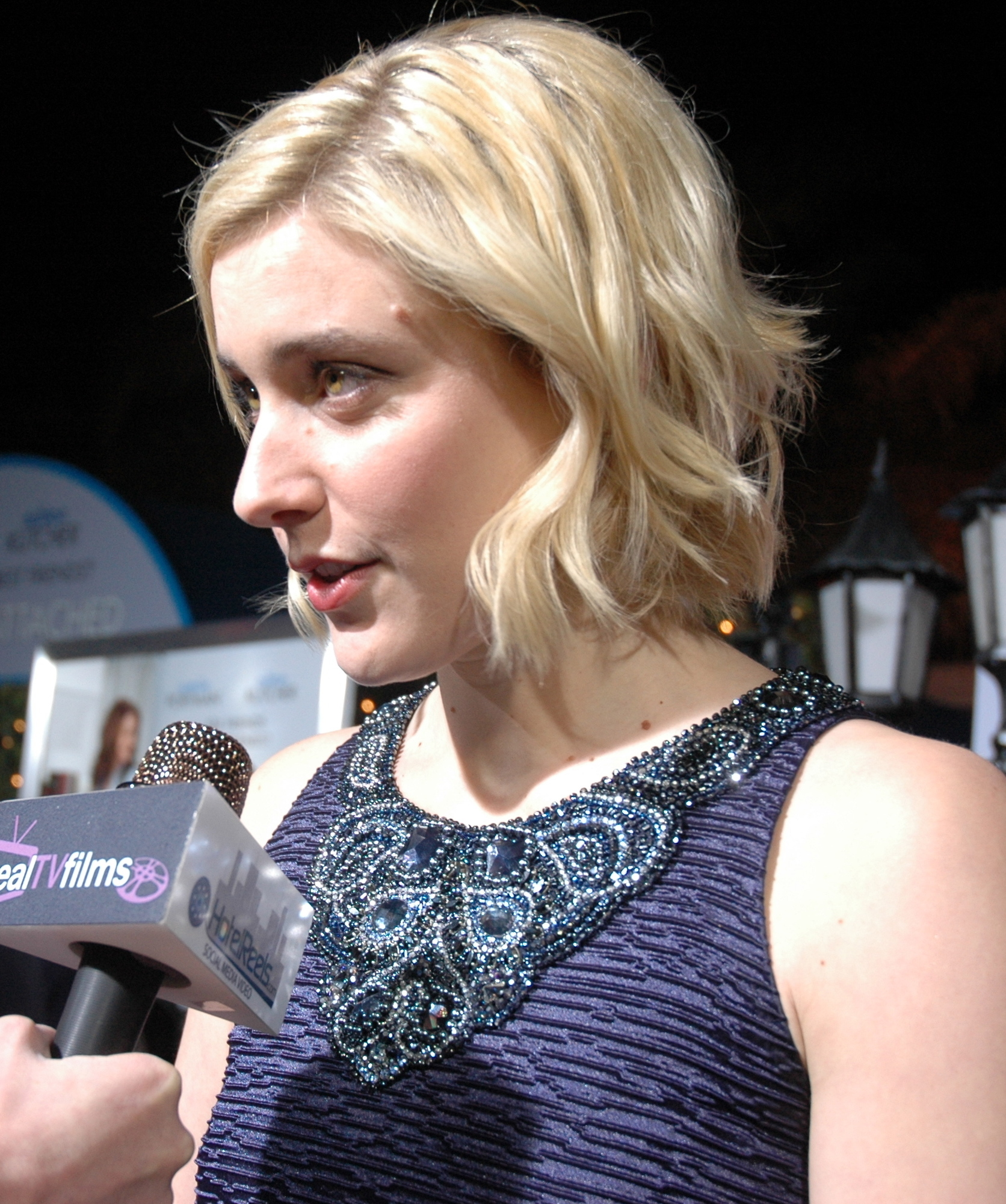 GRETA GERWIG, LA Premiere of "NO STRINGS ATTACHED", Regency Village Theatre, Westwood, 1-11-11.Cast members and filmmakers attending include: Ivan Reitman (Director), Natalie Portman (Emma), Ashton Kutcher (Adam), Kevin Kline (Alvin), Lake Bell (Lucy), Greta Gerwig (Patrice), Chris "Ludacris" Bridges (Wallace), Jake Johnson (Eli), Ben Lawson (Sam), Adhir Kalyan (Kevin), Brian Dierker (Bones), Stephanie Scott (Young Emma), Elizabeth Meriwether (Writer), Tom Pollock (Executive Producer) Joe Medjuck (Producer), Jeff Clifford (Producer), Roger Birnbaum (Executive Producer), Gary Barber (Executive Producer), Jonathan Glickman (Executive Producer)